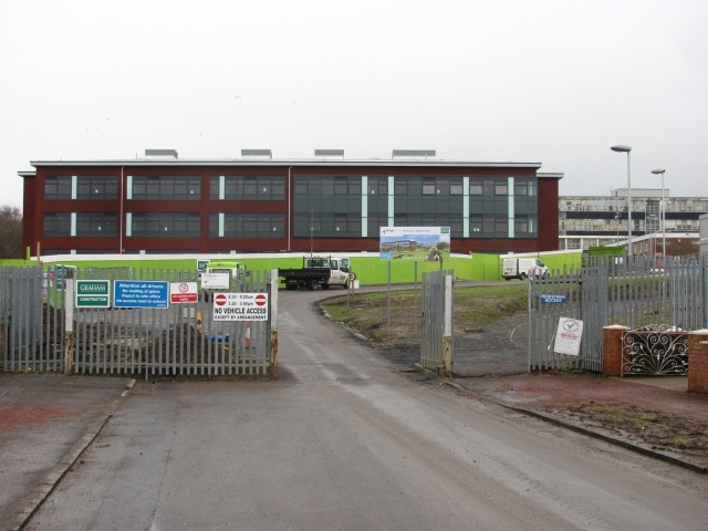 Coltness High School